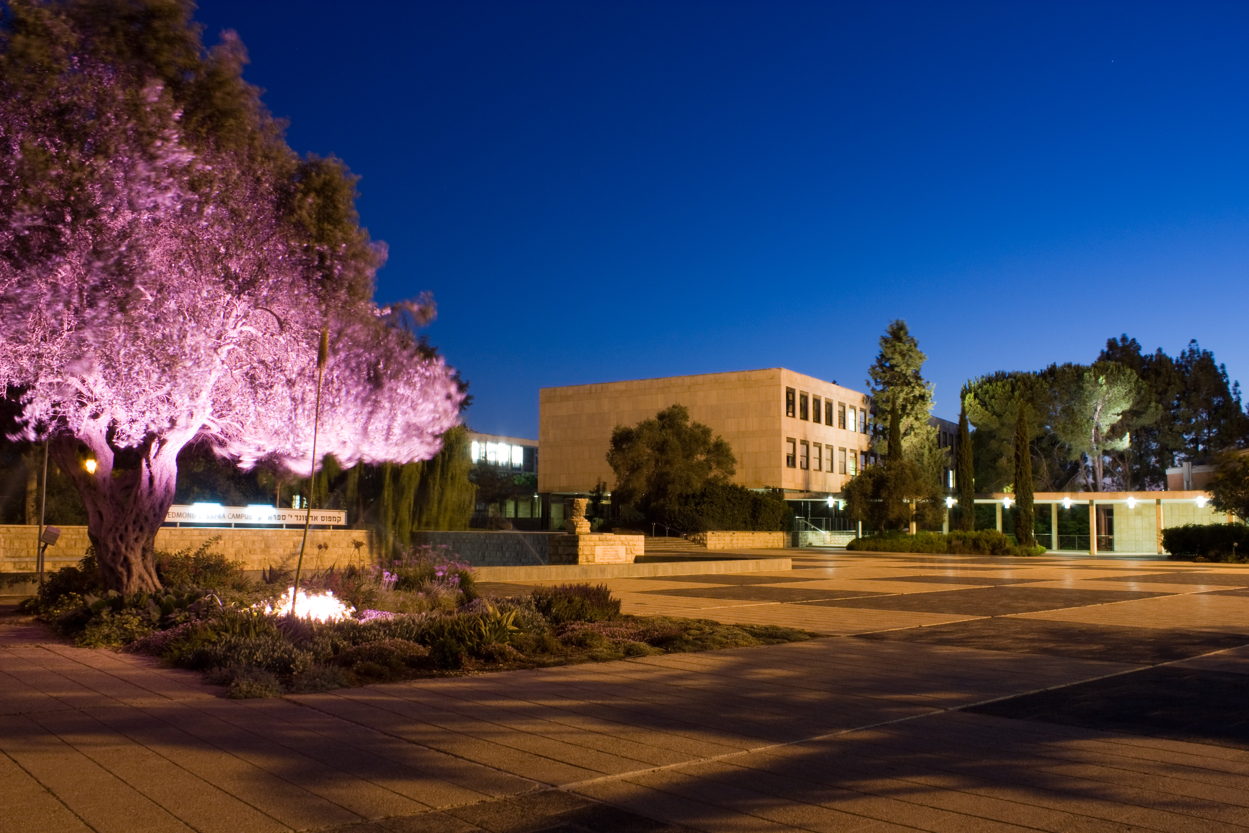 The entrance to Edmond Safra (Givat ram) Campus of the Hebrew University, Jerusalem